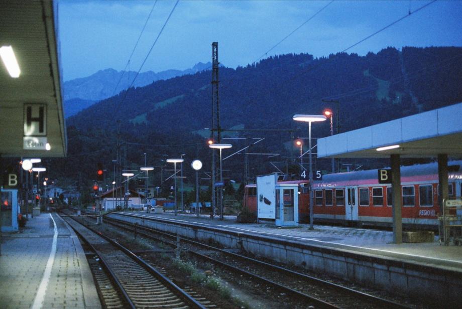 railway station "Garmisch-Partenkirchen" in the late evening